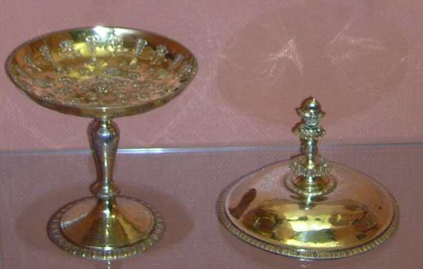 Tazza at Our Lady's church, Trondheim, Norway